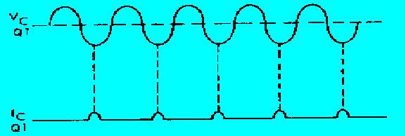 Napon i struja kroz kolektor